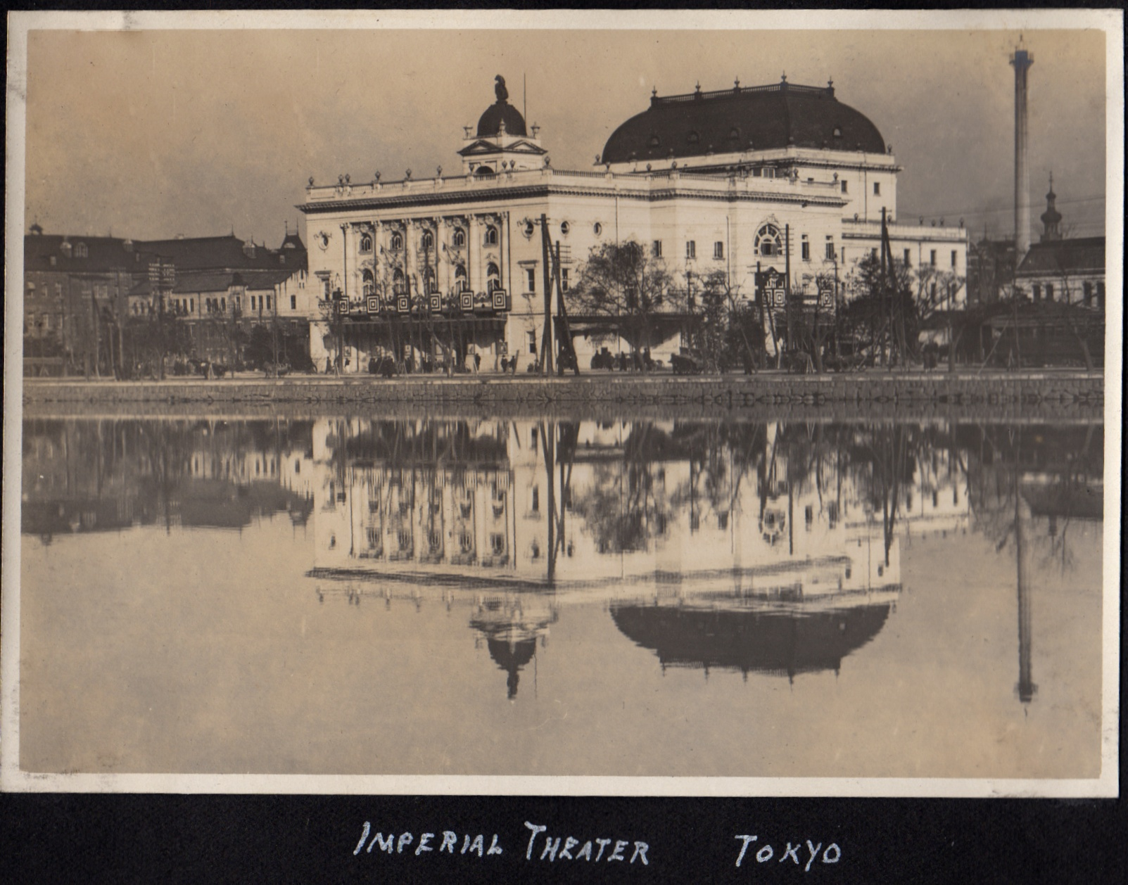 My spouse's uncle Elstner Hilton took this photo in Japan between 1914 and 1918. According to the Web site "Established in 1911 as the first western-style theatre in Japan, the Imperial Theatre is located in the centre of Tokyo, close to the Imperial Palace and Marunouchi, the major business area of the city. When it originally opened the venue had a great impact on the Japanese theatrical scene, inaugurating a completely new type of theatrical activity. After two and a half years of refurbishment it re-opened in 1966 and has since regularly hosted large-scale musical productions such as Miss Saigon and Les Misérables. It remains one of the most important large-scale theatres in the country."